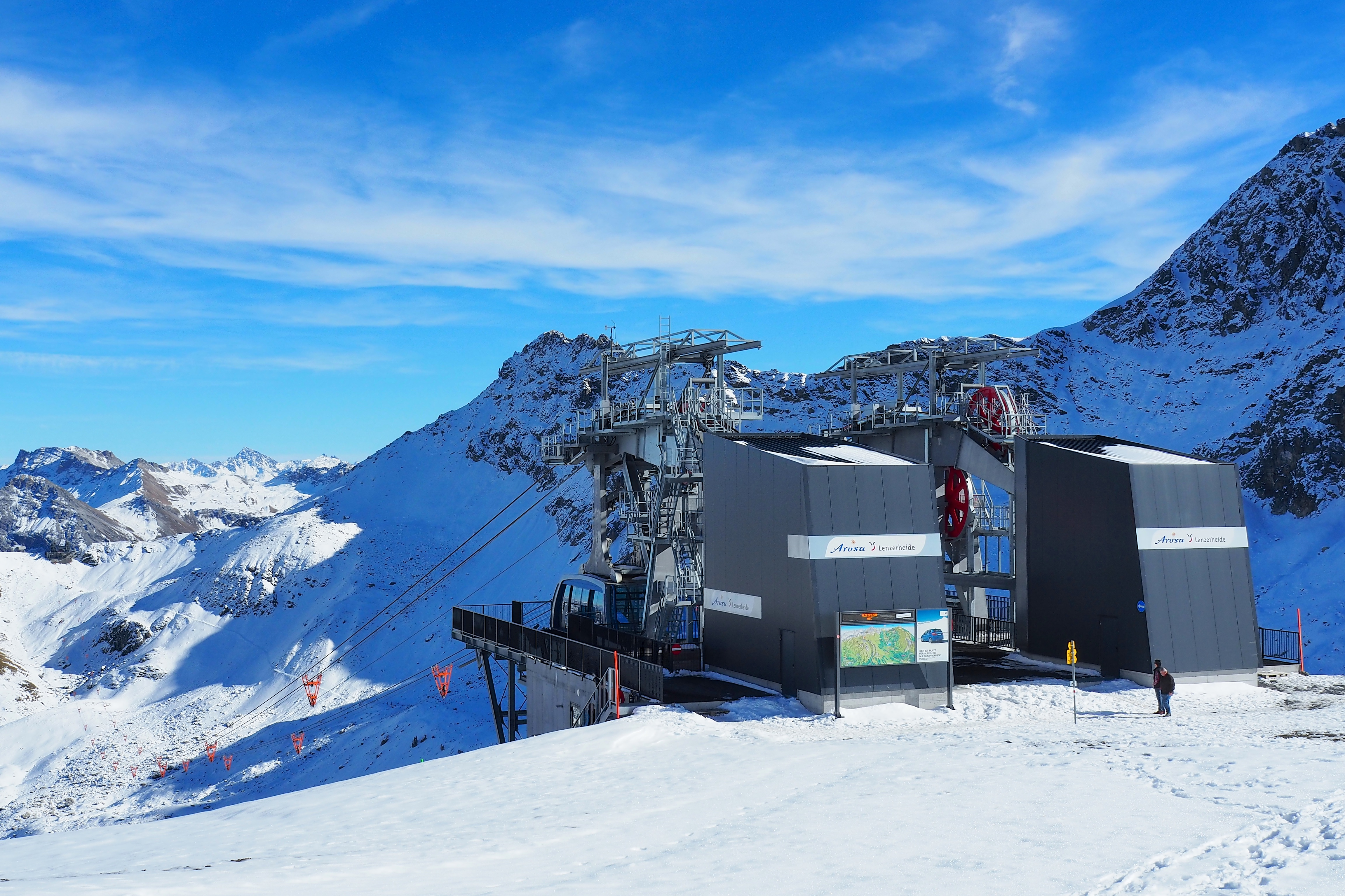 Cableway "Urdenbahn", station Urdenfürggli in 2015, Arosa Lenzerheide/Switzerland